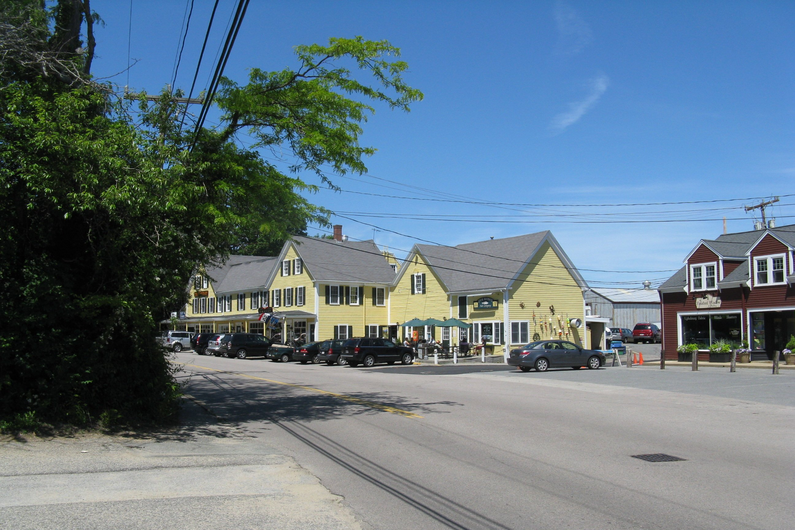 Sweetser's General Store, Duxbury Massachusetts - part of the Old Shipbuilder's Historic District